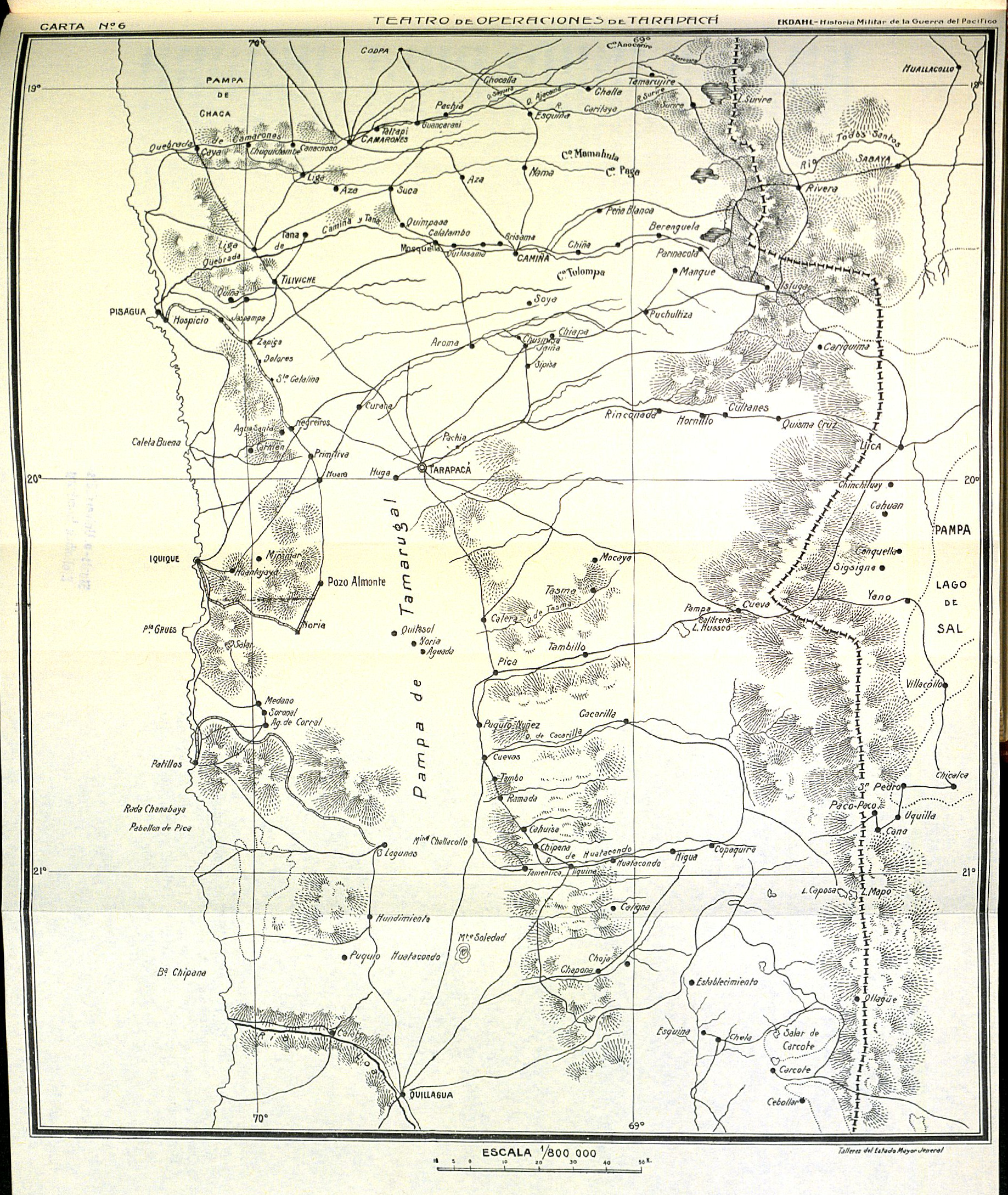 Map of Tarapaca